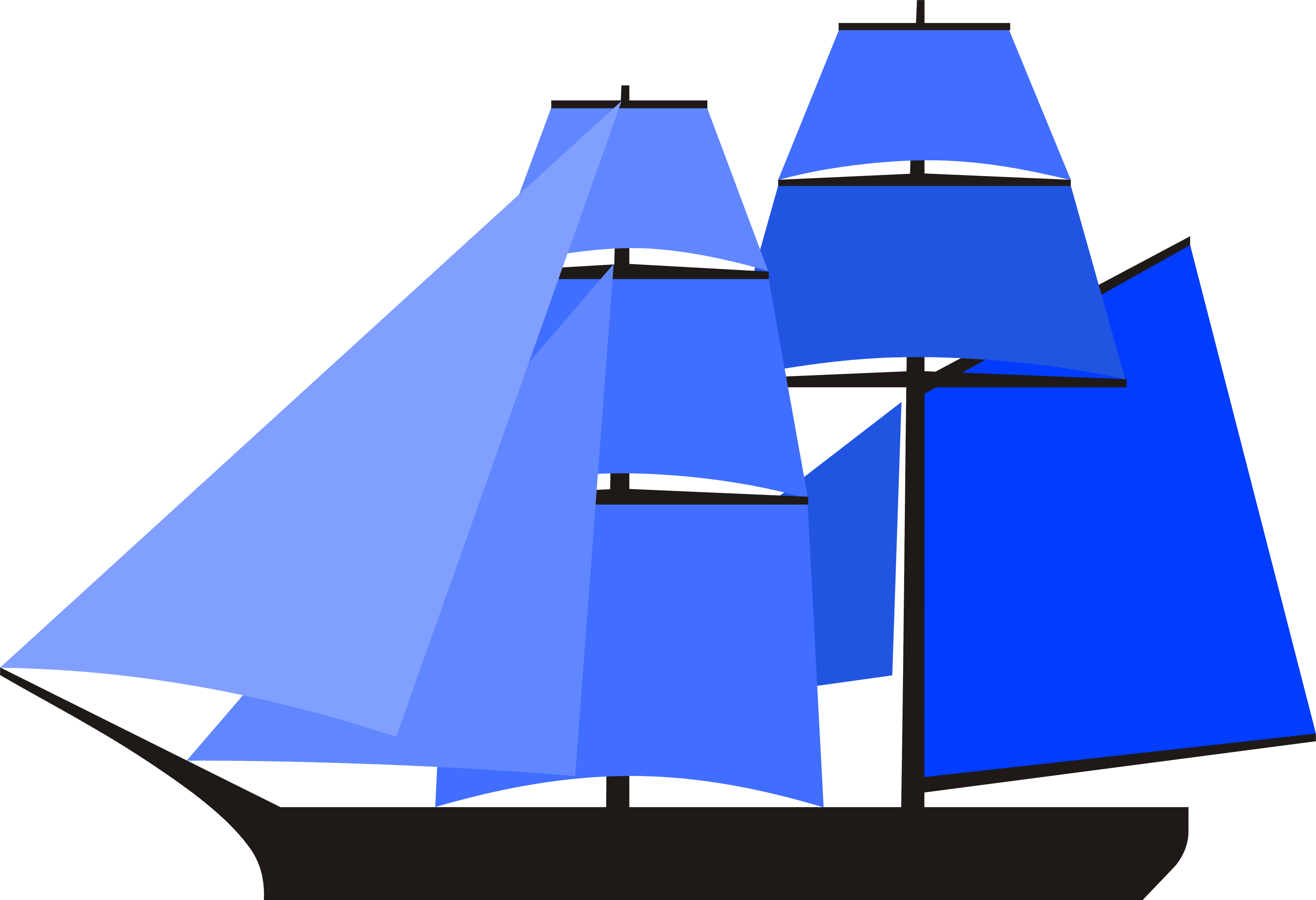 The Brigantine is a vessel with two masts, whose foremast is square-rigged like that of the full-rigged brig. The mainmast, carries a large fore-and-aft mainsail, above which are one or more yards with a square main-topsail and topgallant sail are carried.